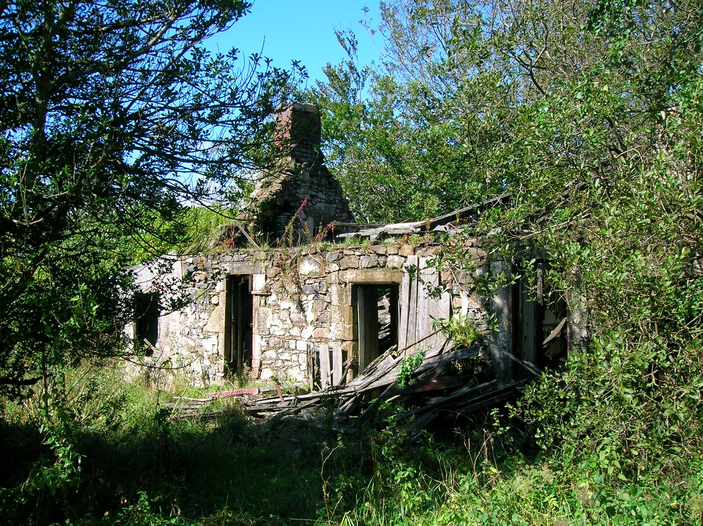 Davies o'the Mill cottage ruins, Beith, North Ayrshire, Scotland